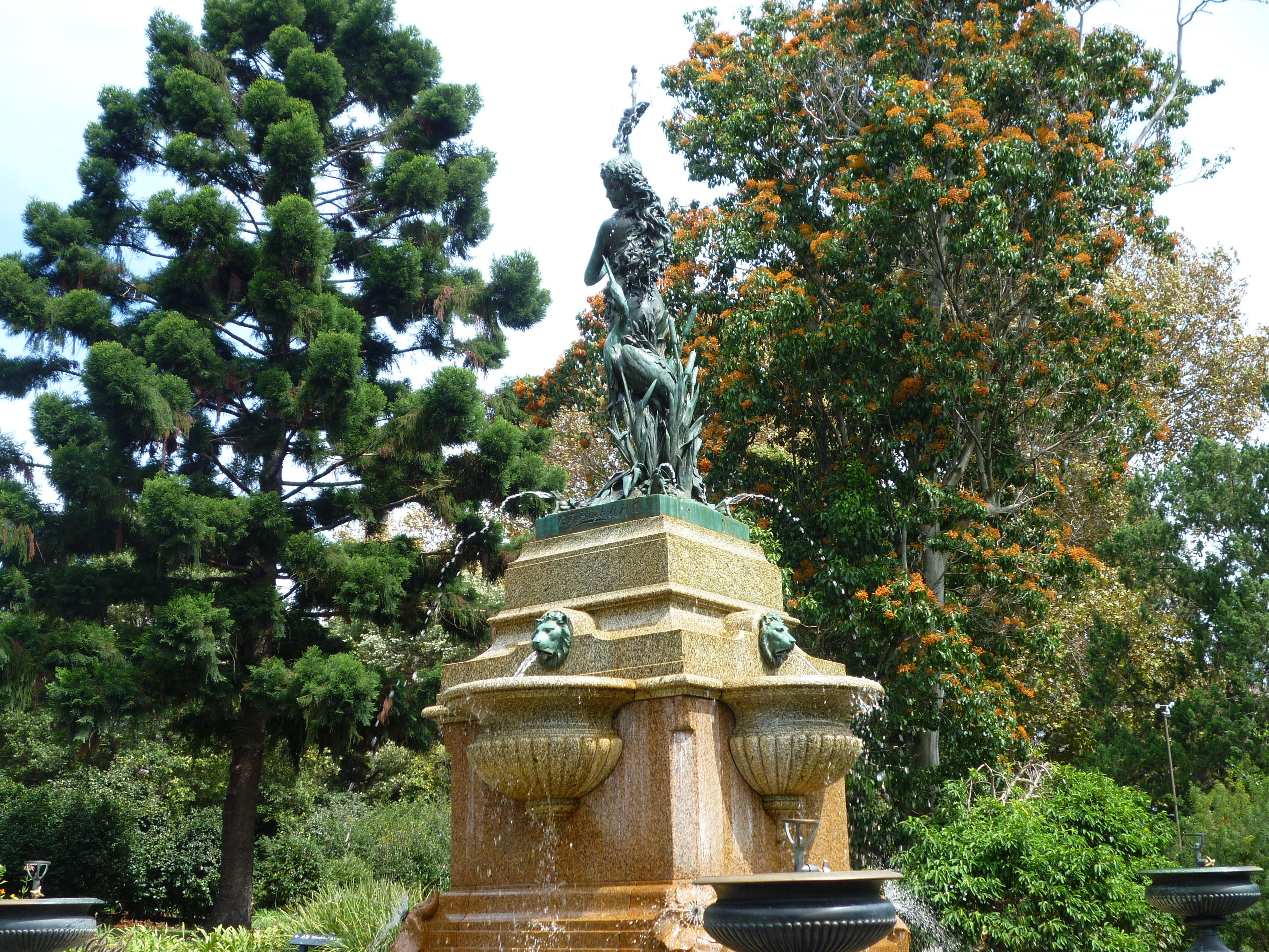 A gift from the Levy family in memory of Lewis Wolfe Levy (1815-1885). Erected in the Royal Botanic Gardens.